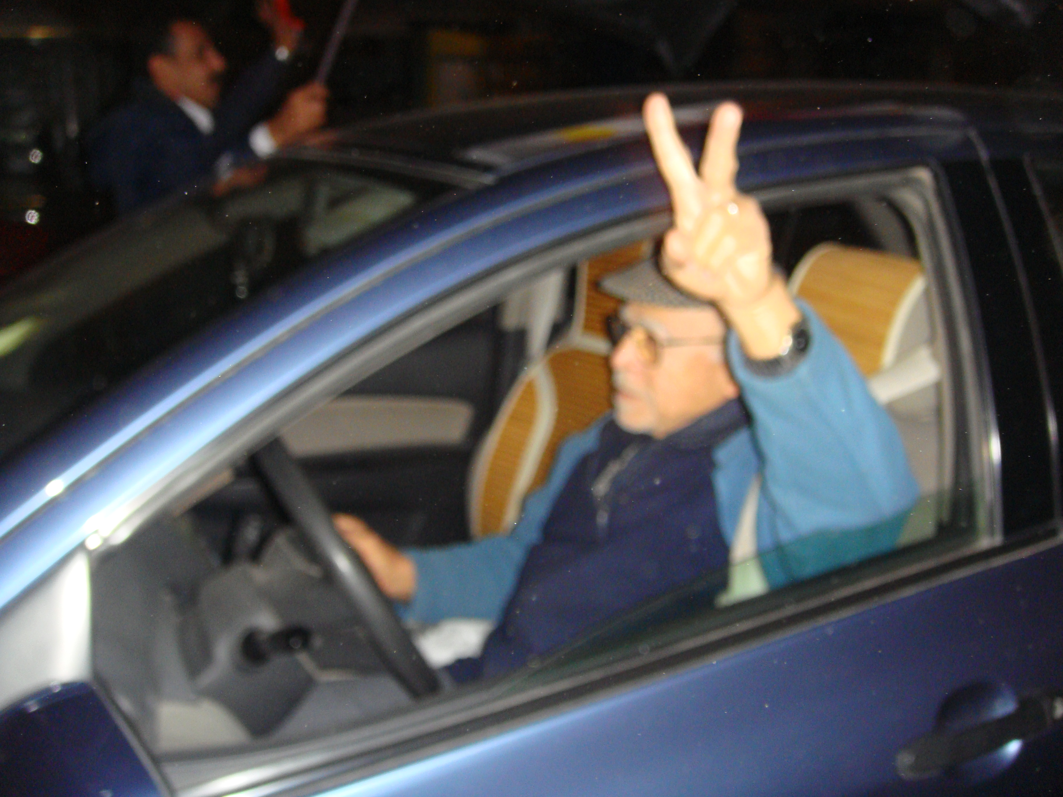 As the crowd of thousands marched back toward Tahrir Square from the presidential palace, young men sprinted along the streets and through the grassy median separating the wide boulevard, trailing Egyptian flags behind them. Grinning drivers waved and held their hands in peace signs through their windows. Celebrating protesters set of fireworks and lit giant streams of aerosol spray on fire.